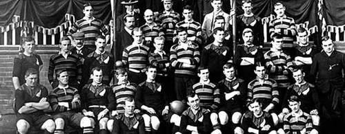 The Northampton Saints players posing together with the Original All Blacks.